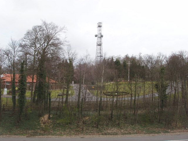 Radio mast at Daws Hill There are a number of radio masts just by the M40 as it runs over the top of the Chilterns. View from daws Hill Lane bridge over the M40.